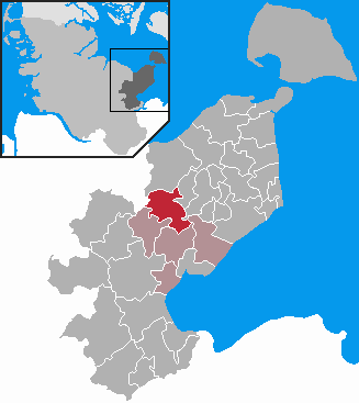 This map shows the area of the Gemeinde (municipality) Schönwalde am Bungsberg in the Kreis (district) Ostholstein, Schleswig-Holstein, Germany.